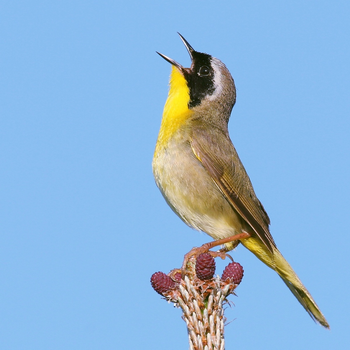 Common Yellowthroat / Geothlypis trichas